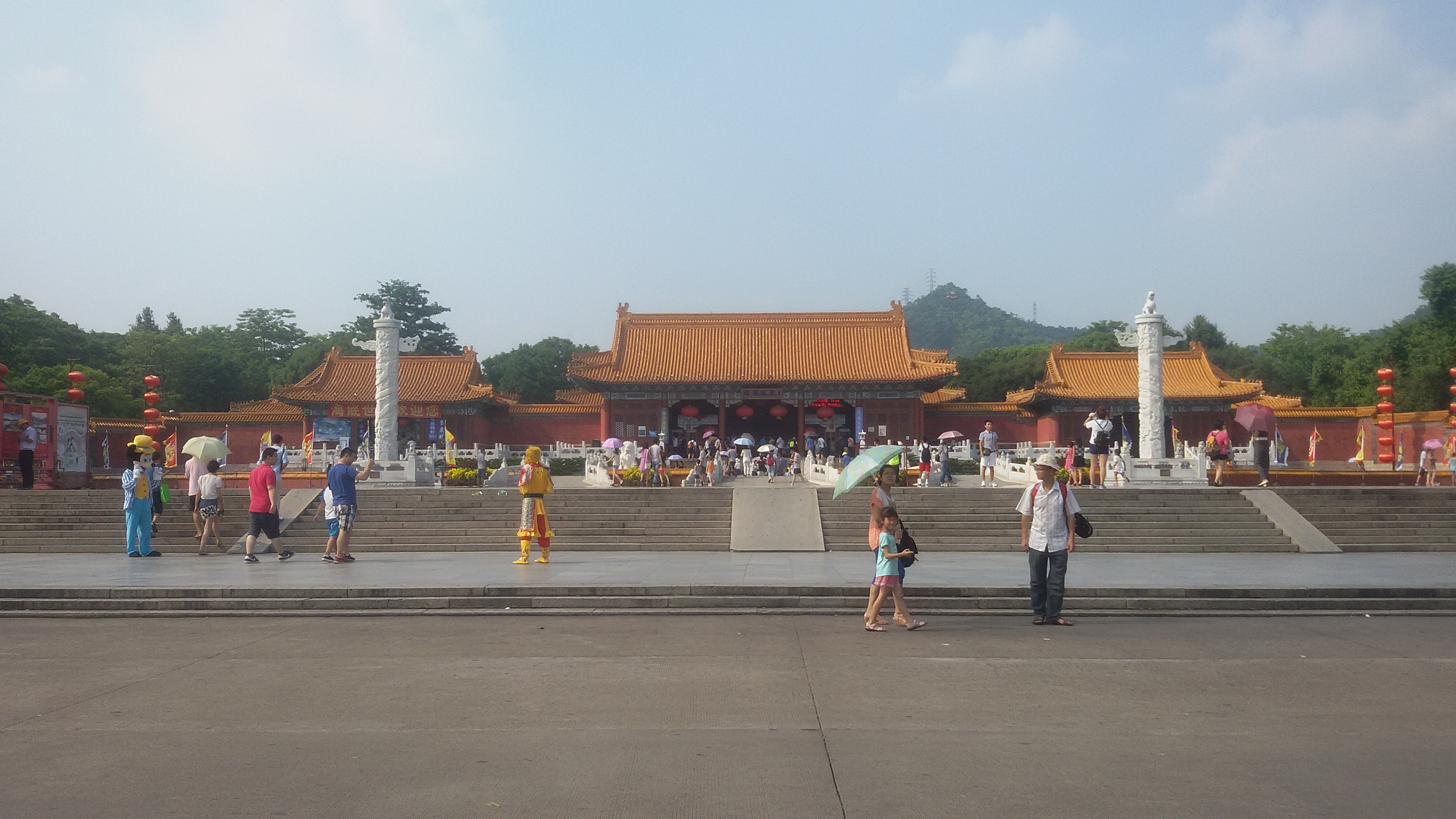 New Yuanming Palace